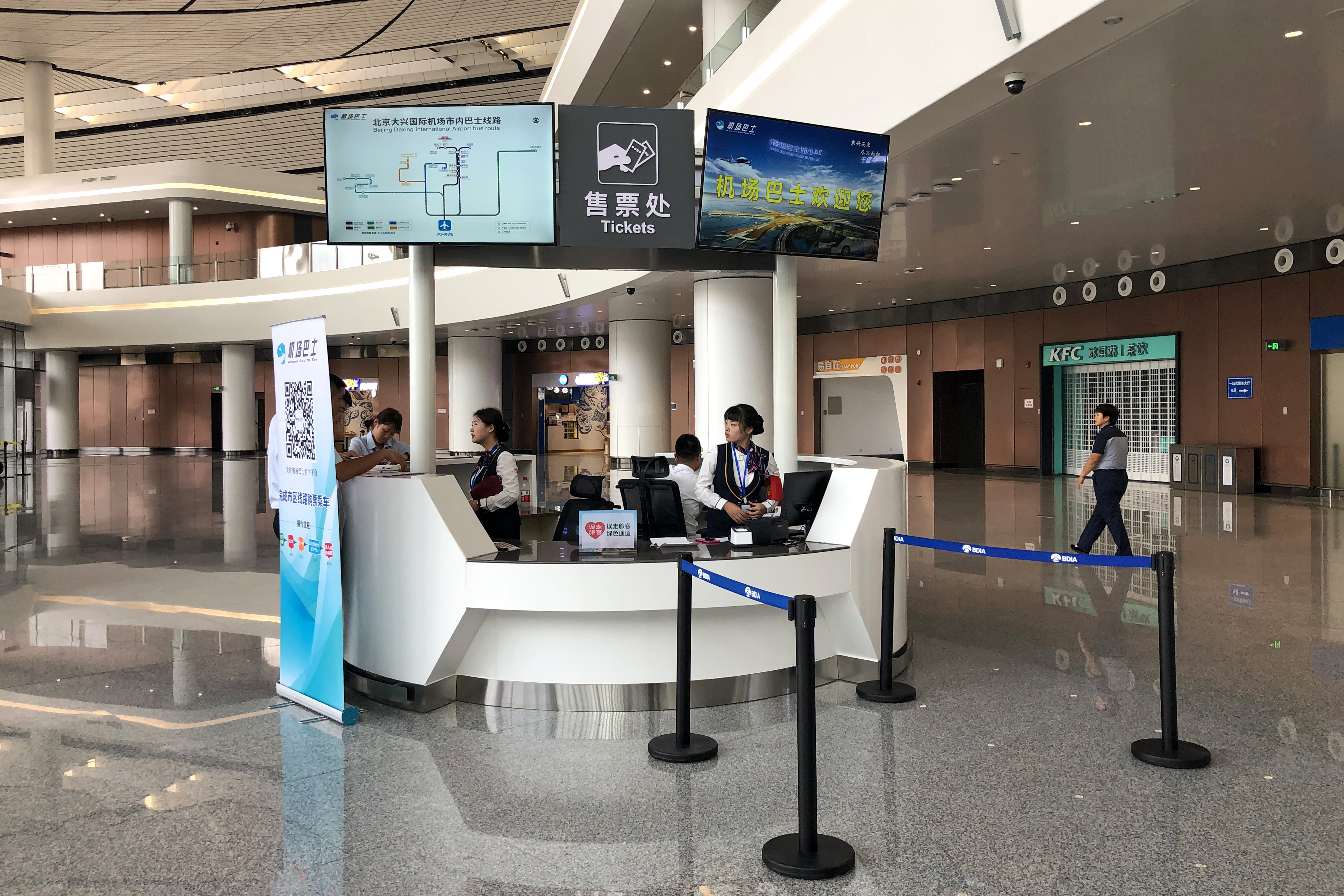 All minibuses.